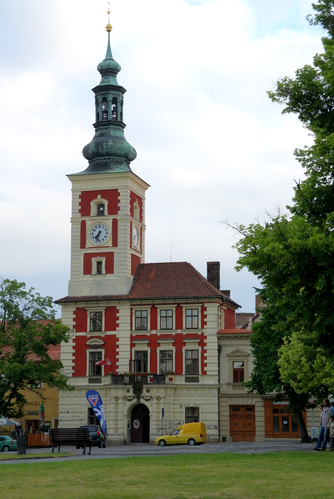 Town Hall (Slaný), Masaryk Square 3/5, Slaný. The tower clock is ringing and at the very top is twelve-star, which is a symbol of Hussite´s Slaný.